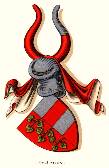 Lindenov coat of arms